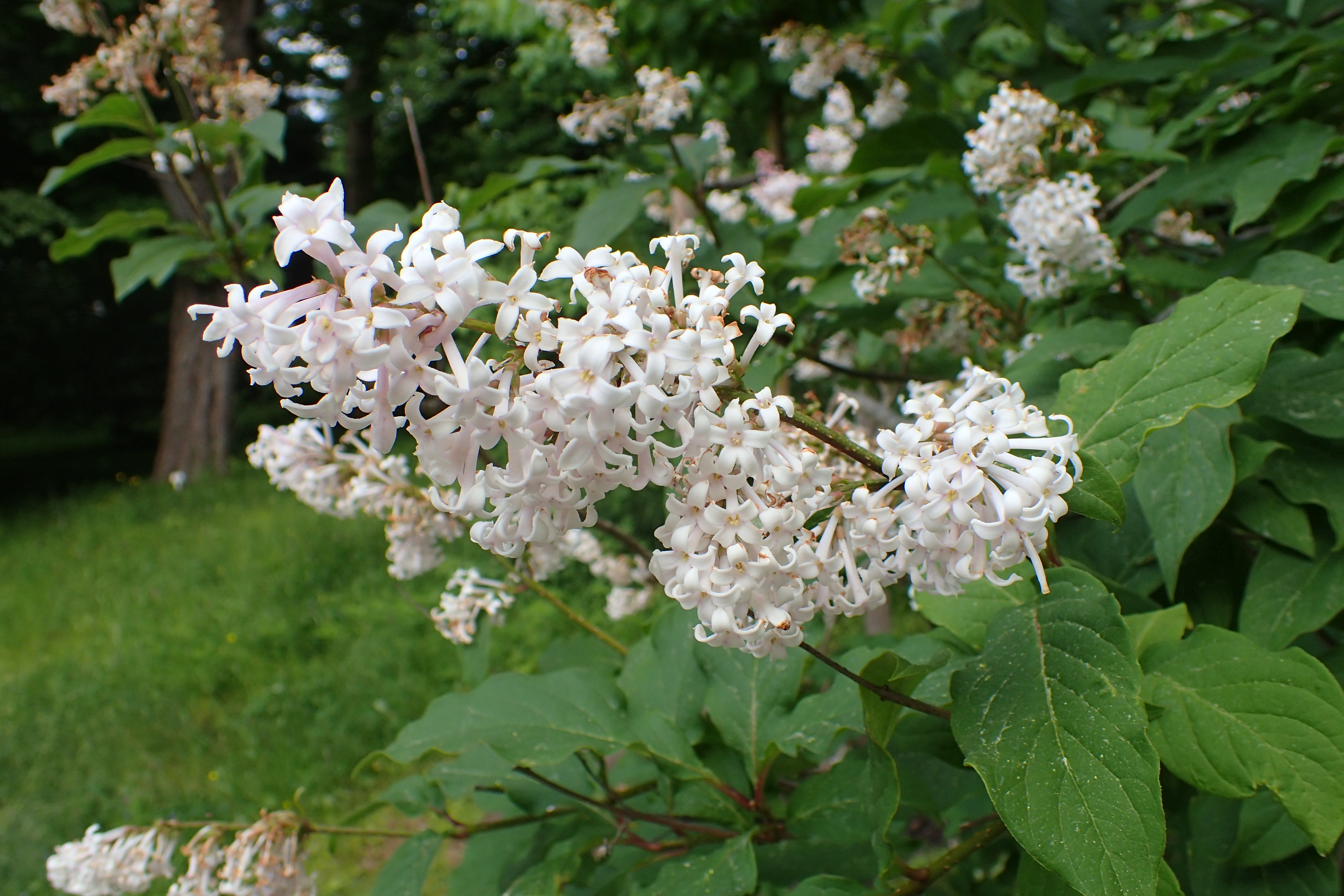 Syringa emodi in the Botanischer Garten, Berlin-Dahlem